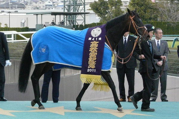 Kinshasa-no-Kiseki20110327